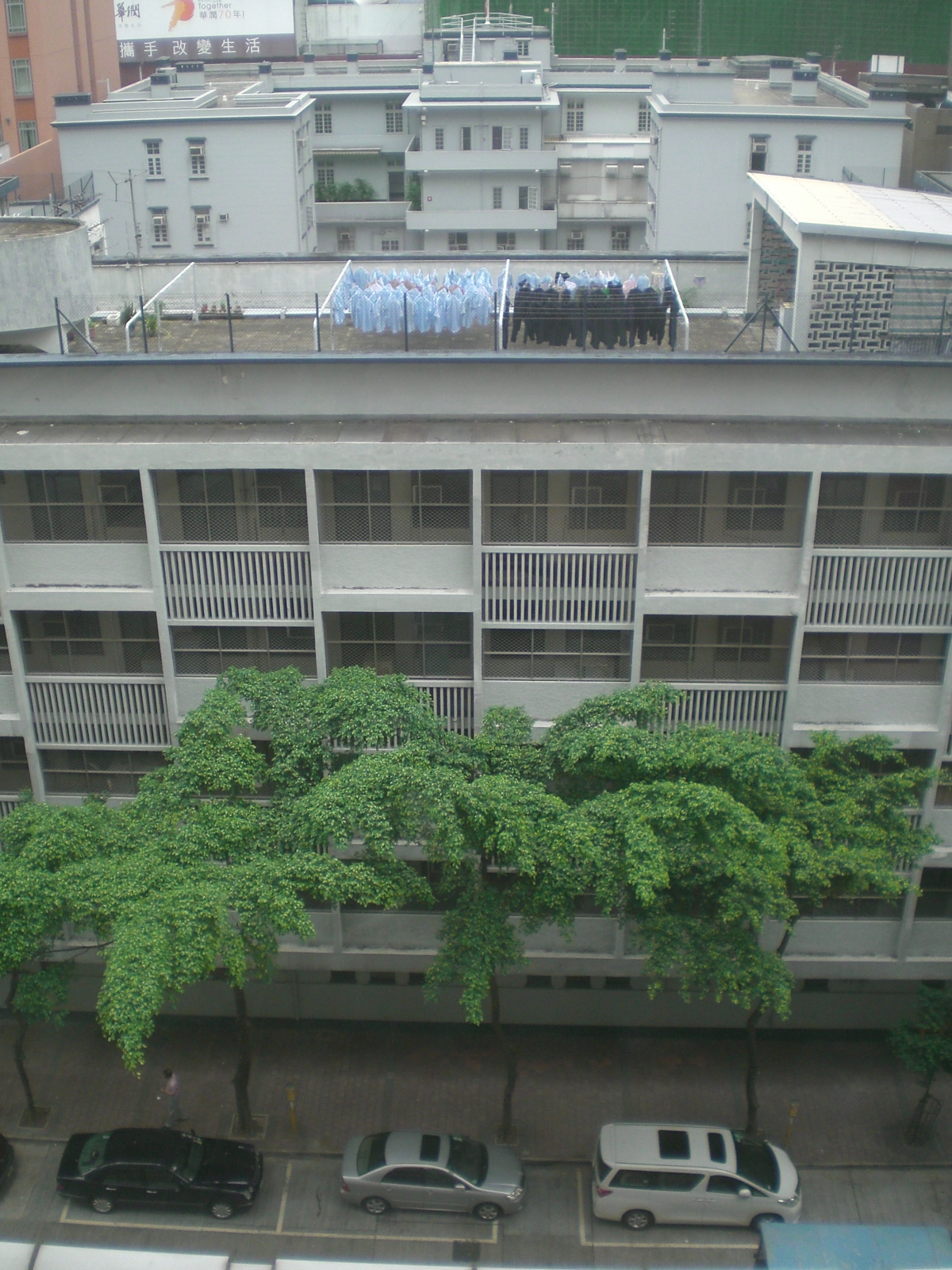 灣仔警署及zh:宿舍天台(View from the Lockhart Road Public Library)